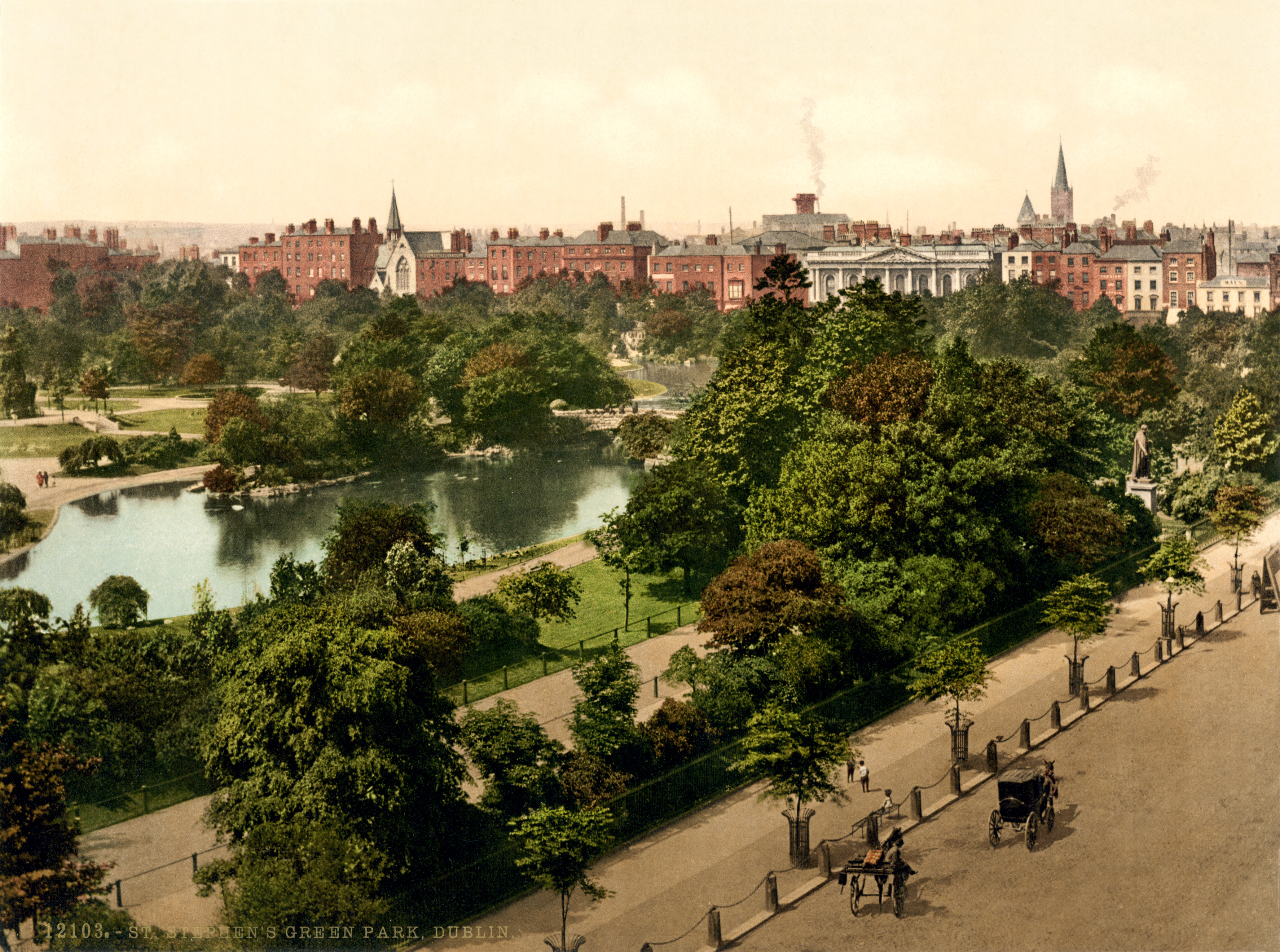 12103 P.Z. St. Stephen's Green Park, Dublin. Photochrom print by Photoglob Zürich, between 1890 and 1900. From the Photochrom Prints Collection at the Library of Congress More photochroms from Ireland | More photochrom prints [PD] This picture is in the public domain